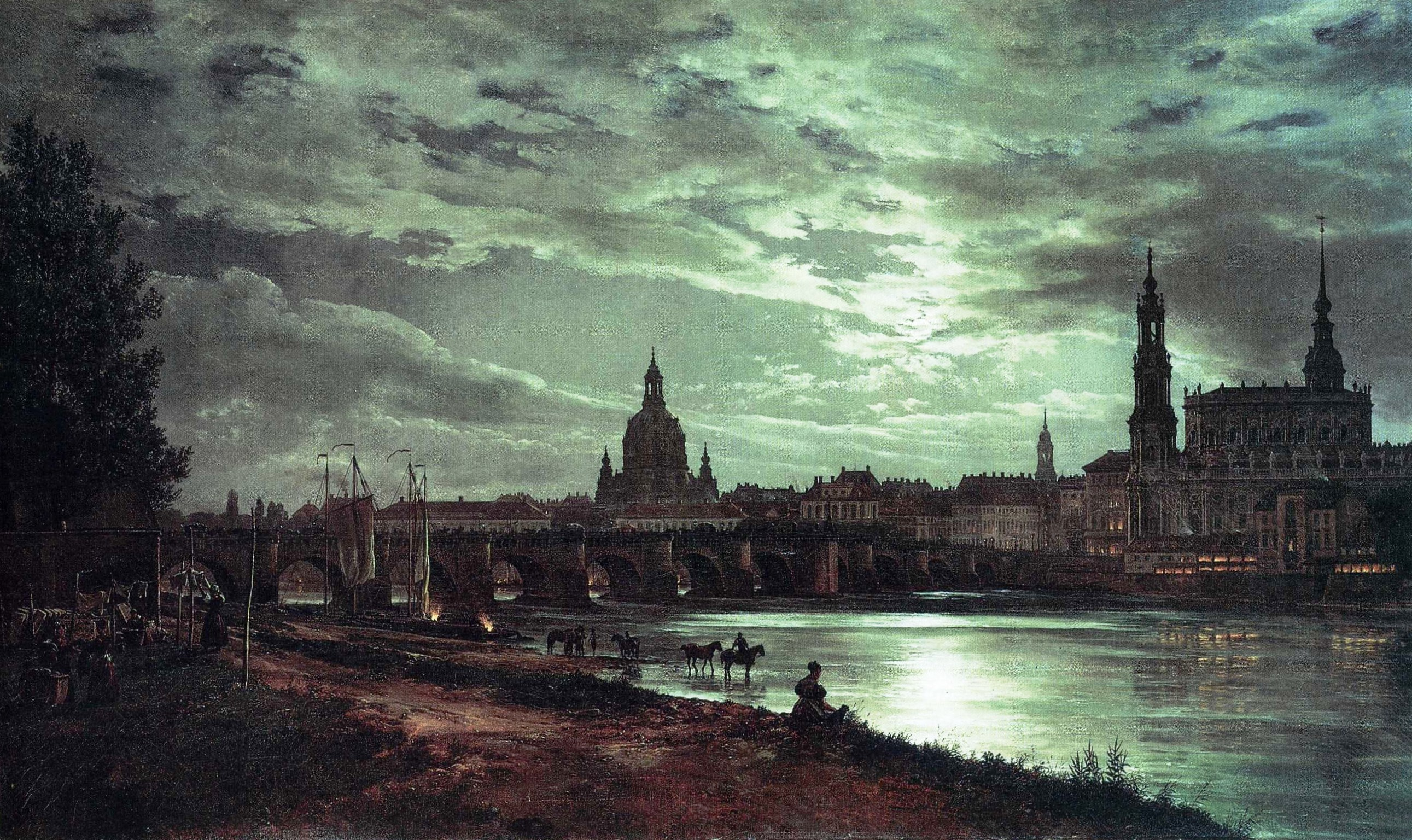 Dresden